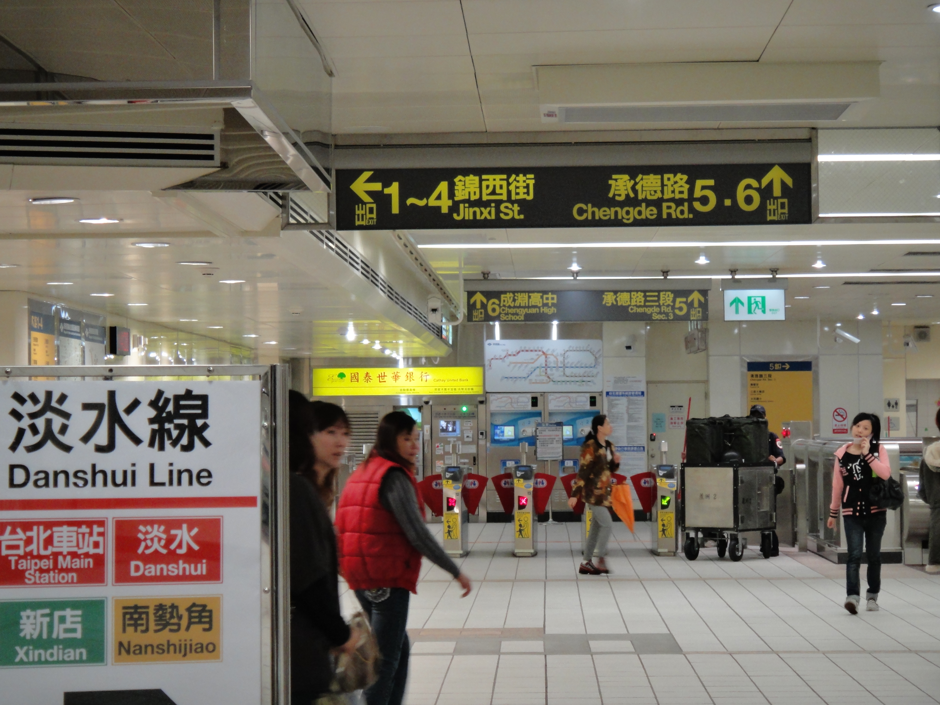 The new exit added during the accomplishment of Luzhou Line Section in Minquan West Road Station.